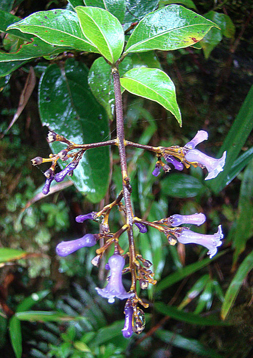 Native to mountains of Costa Rica and adjacent Panama. Photo from Los Quetzales Park, Costa Rica. In context at